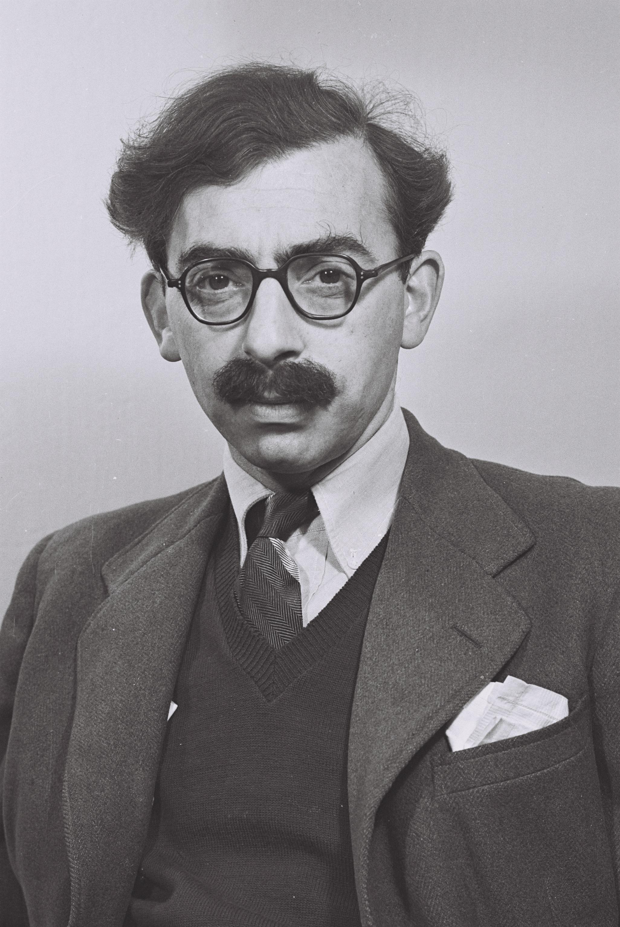 Portrait of mr. Moshe Pearlman, director of the information services.